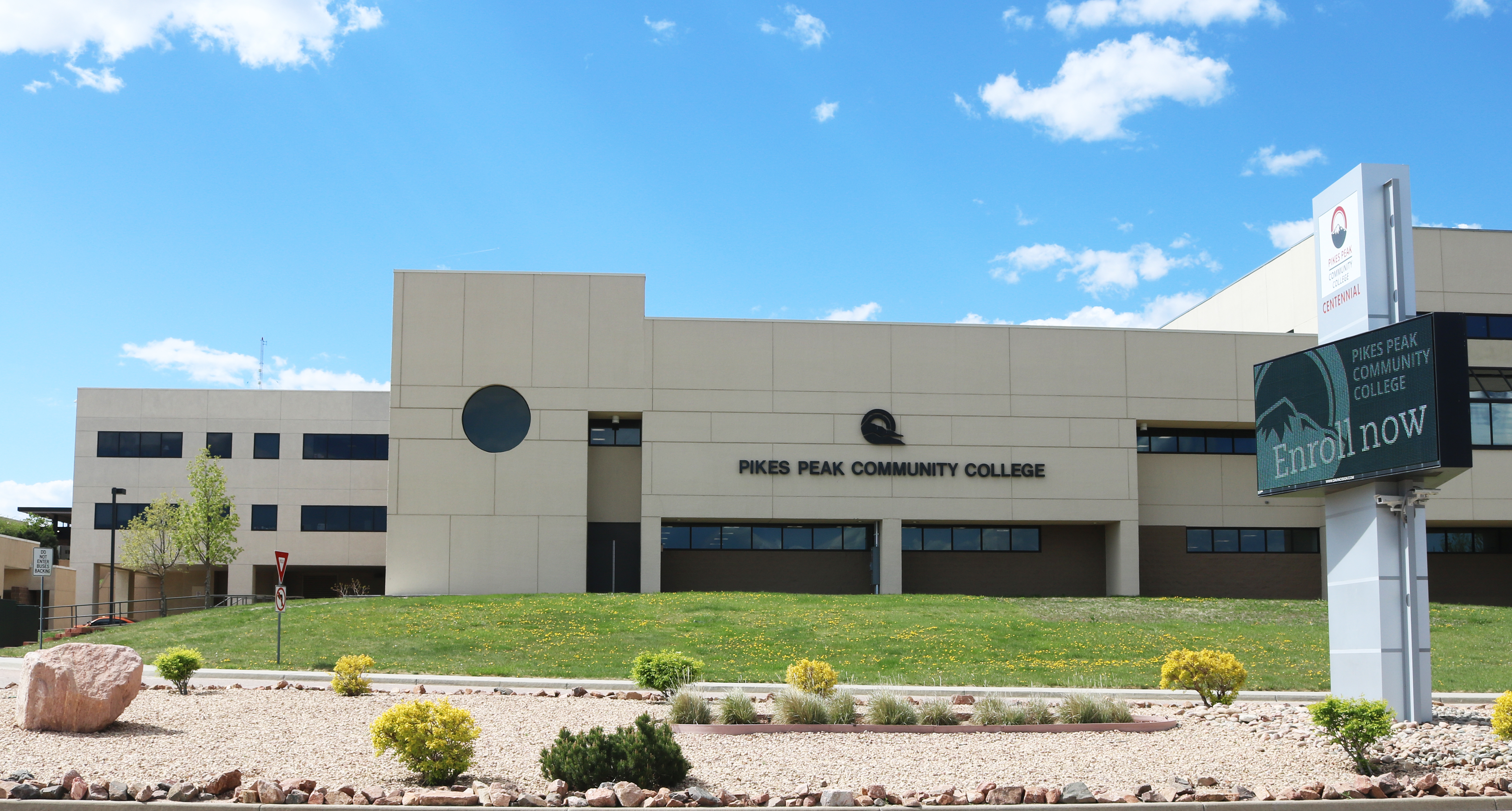 The front of the Pikes Peak Community College Centennial Campus, located at 5675 South Academy Boulevard in Colorado Springs, Colorado 80906.